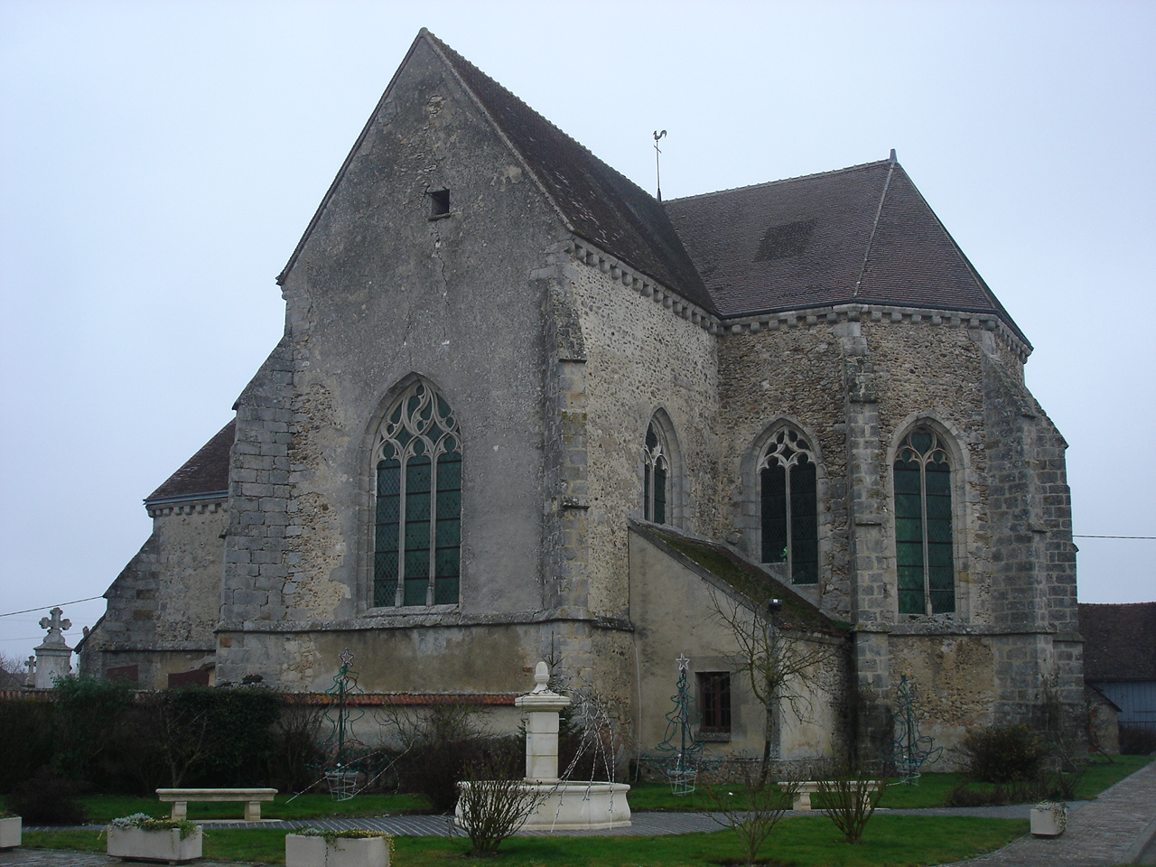 Saint-Apollinaire church of Broussy-le-Grand, Marne, France